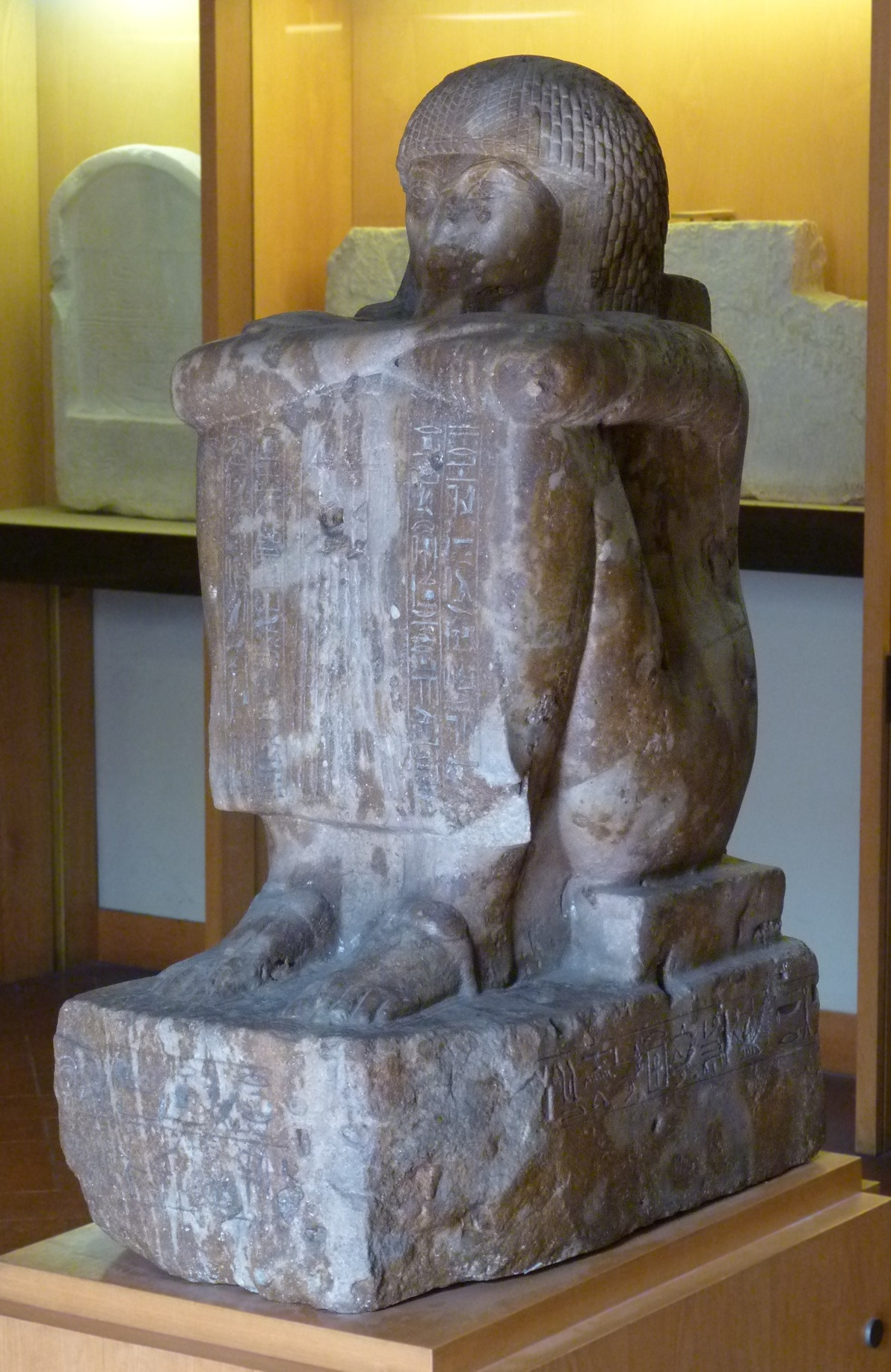 Block statue of the High Priest of Ptah in Memphis, Ptahmose, son of Menkheper. Puddingstone (quartz conglomerate); reign of Amenhotep III, 18th dynasty, New Kingdom. Florence, Museo archeologico nazionale, n. 1790 (Cat. Schiaparelli n. 1505).